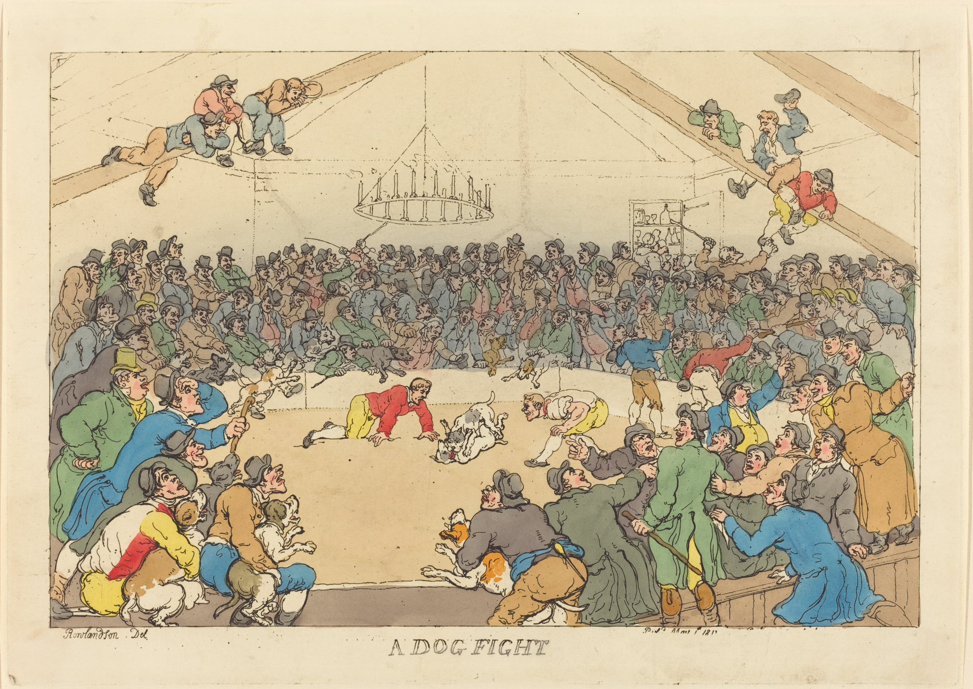 Thomas Rowlandson (British, 1756 - 1827 ), A Dog Fight, 1811, hand-colored etching, Rosenwald Collection 1945.5.1191